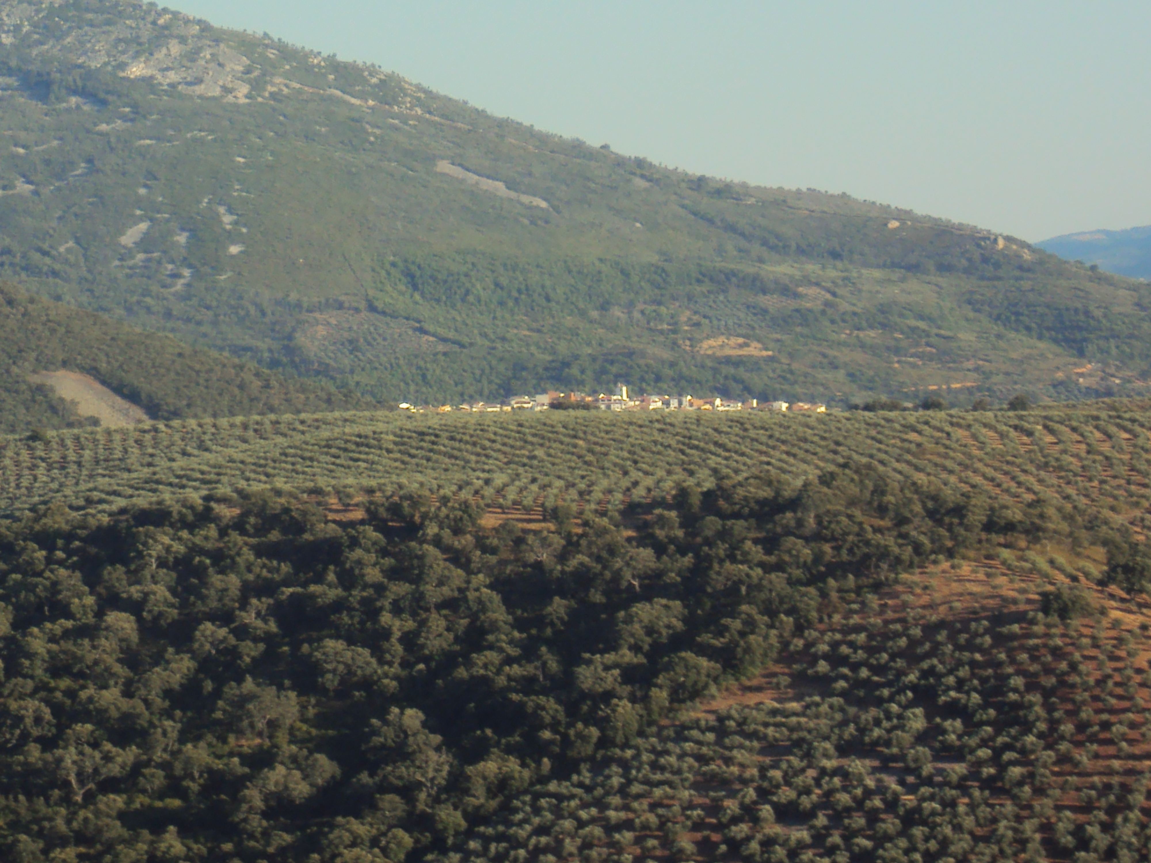 Village of Castañar de Ibor, Cáceres, Spain.